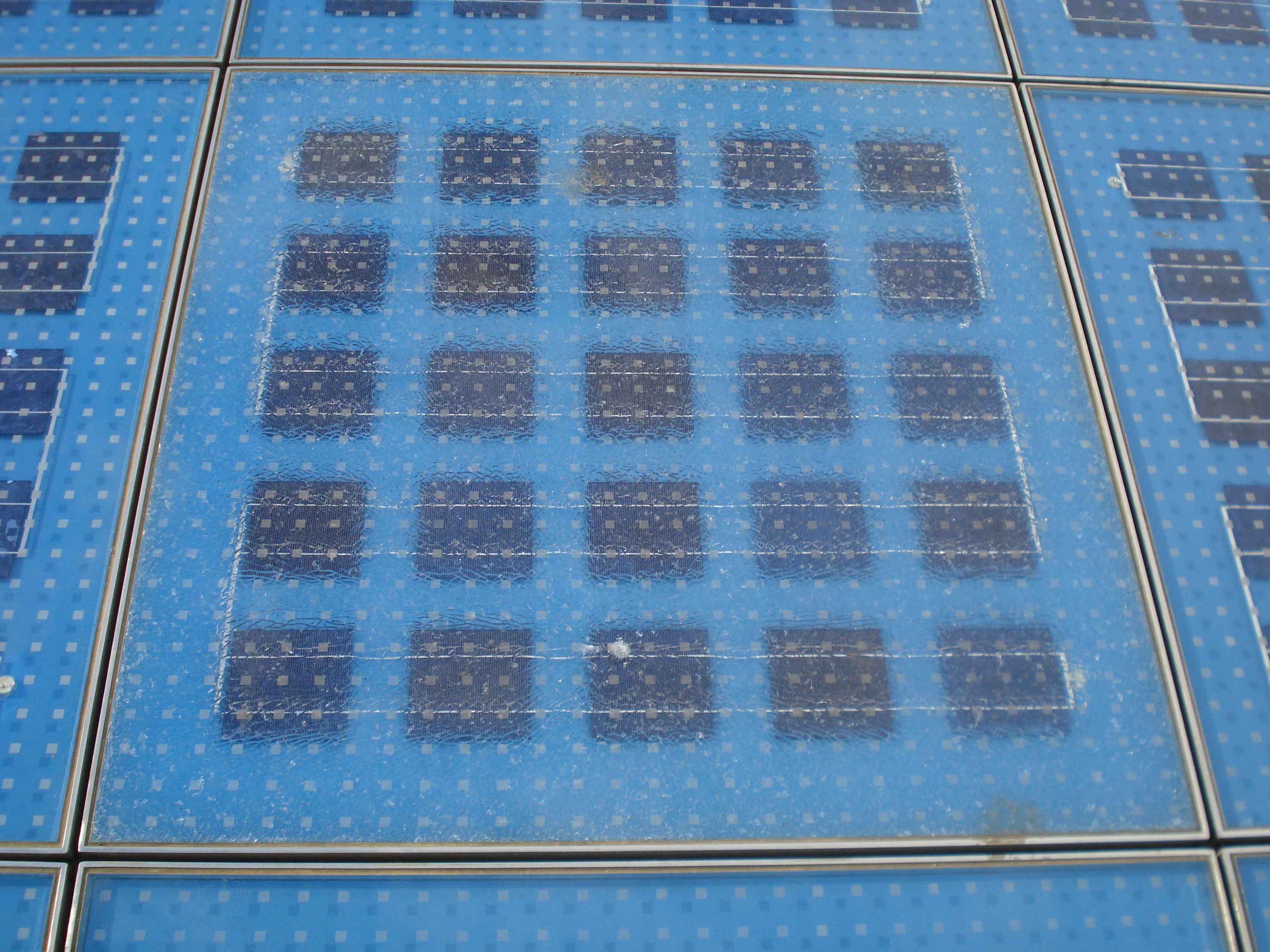 Vandalizmom oštećena ploča na Pozdravu Suncu